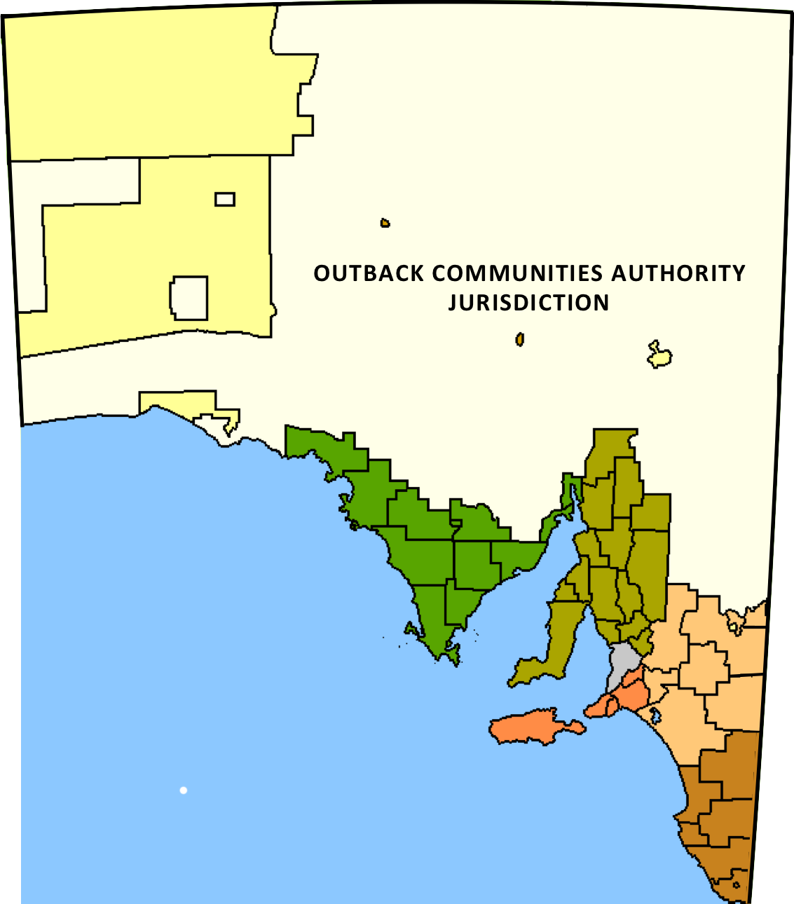 Map of LGAs in South Australia, regions in different colours